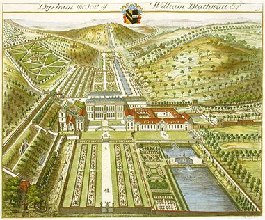 Engraving by Johannes Kip of Dyrham Park, Gloucestershire, published 1712 in "The Ancient & Present State of Gloucestershire", by Sir Robert Atkyns.